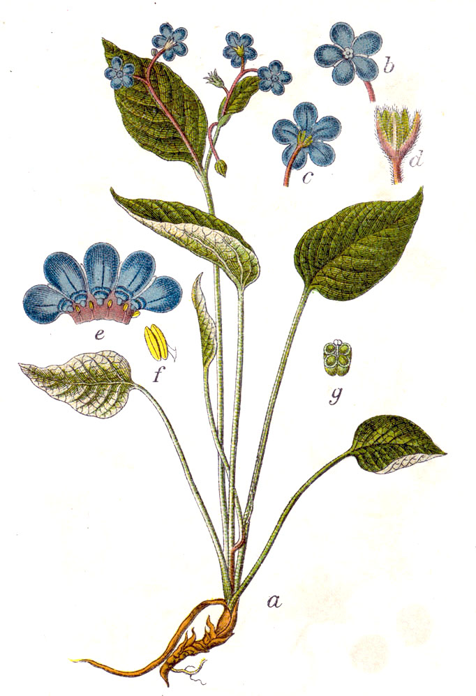 Omphalodes verna Moench, syn. Cynoglossum omphaloides L. Original Caption Grosses Vergissmeinnicht, Cynoglossum omphalodes